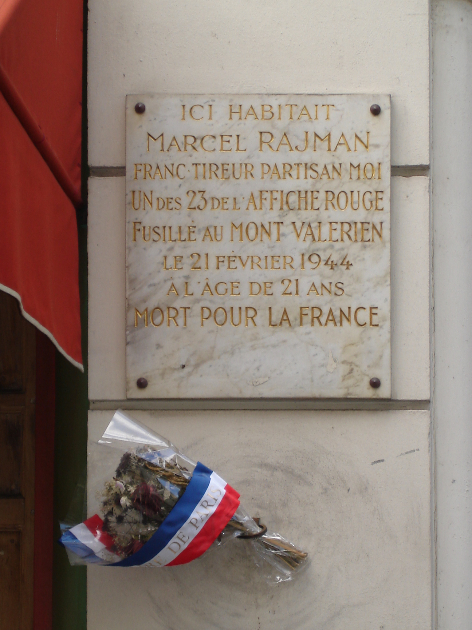 Rue des Immeubles-Industriels: Commemorative plaque of Rajman, member of the Manouchian Resistance group during WWII, shot by the Germans in 1944.